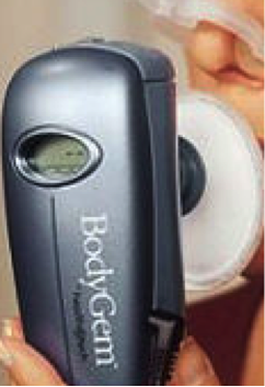 The BodyGem(R) in action in our lab.